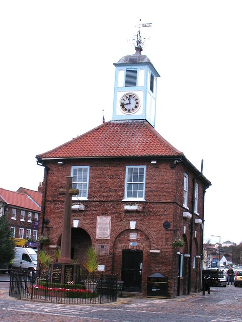 Yarm Town Hall Charming little brick built town hall of 1710. It once had an arched open ground floor. A plaque on the south wall marks the height of the March 1811 flood. There are similarities to Northallerton as both towns have curving main streets lined with 18th century buildings, though Yarm's town hall is far nicer than the 19th century effort in Northallerton.